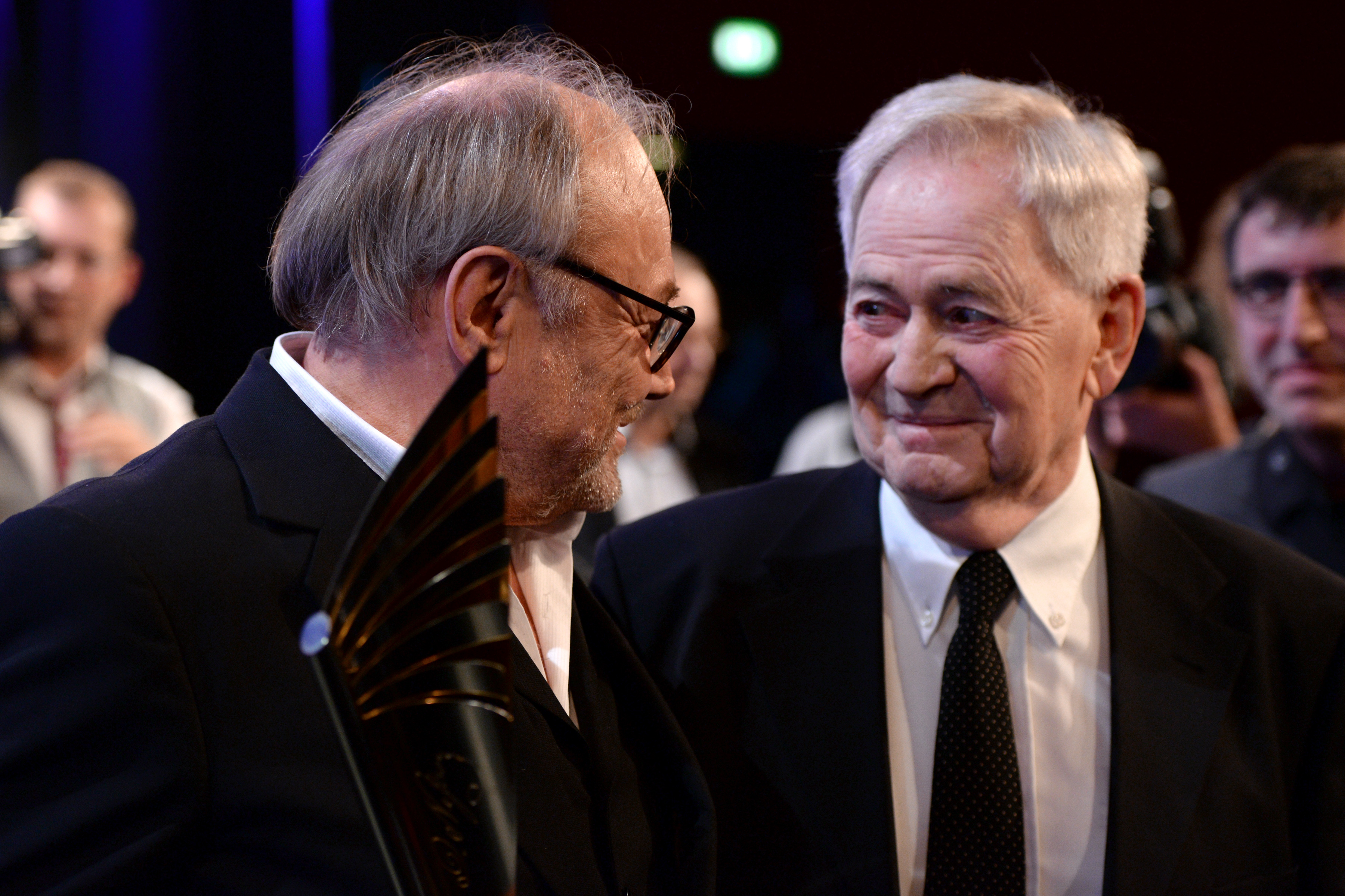 Klaus Maria Brandauer and István Szabó - Nestroy Theatre Awards 2014 at Wiener Stadthalle (Vienna, Austria).